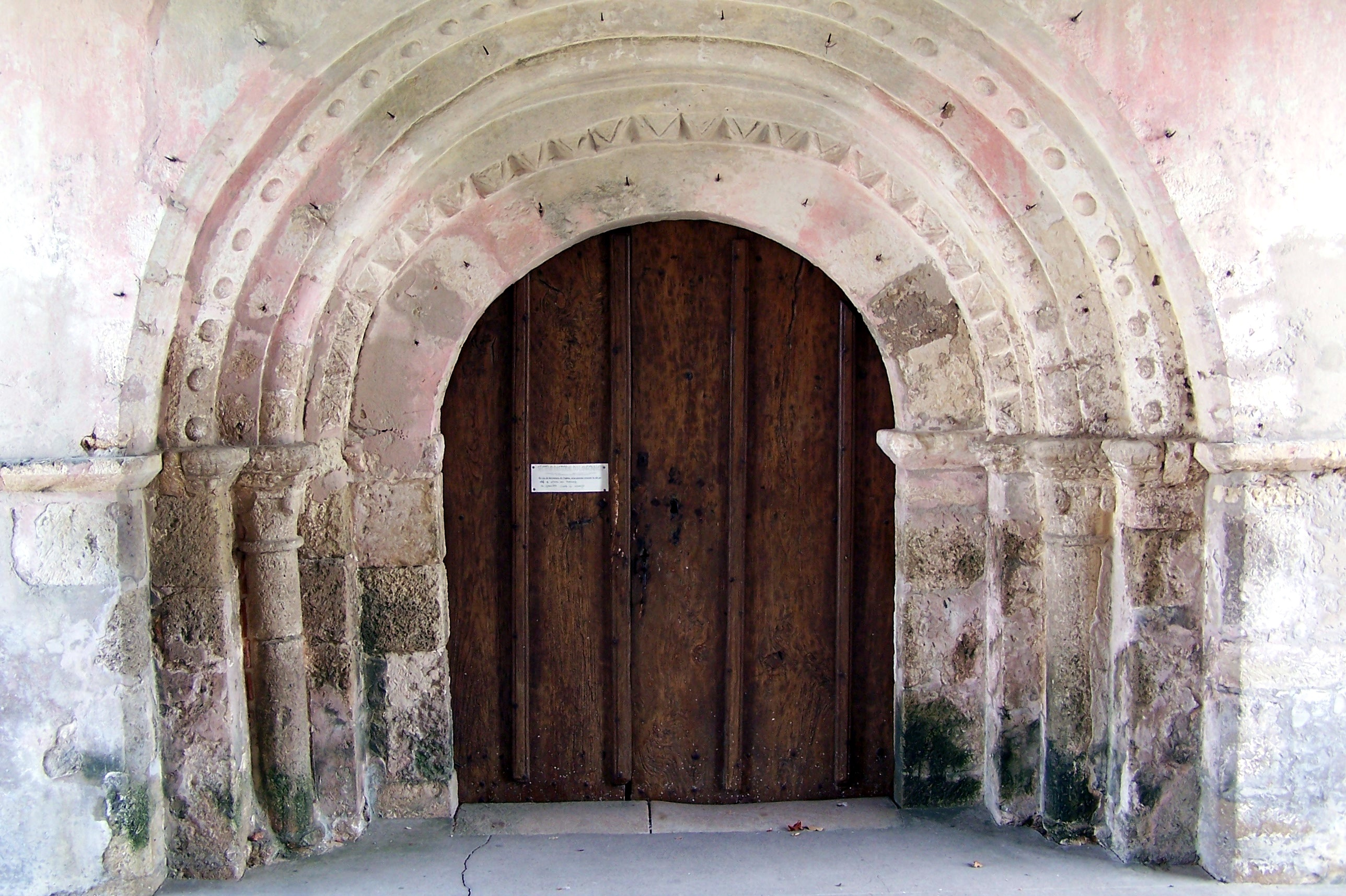 Portal of the church of Fargues (Gironde, France)